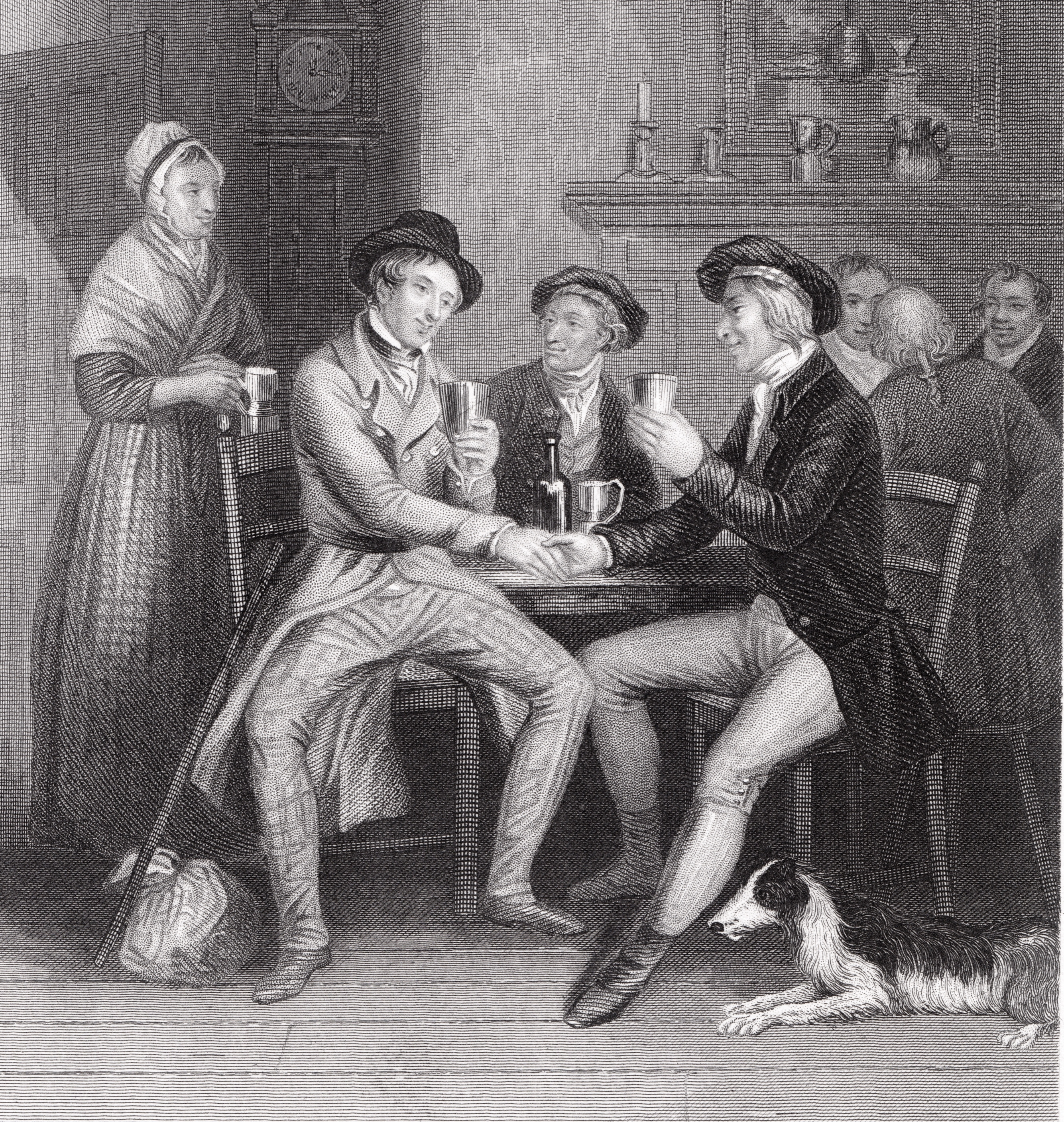 Illustration to Robert Burns' poem Auld Lang Syne by J.M. Wright and Edward Scriven. The Complete Works of Robert Burns: Containing the Poems, Songs, and Correspondence. Illustrated By W.H. Bartlett, T. Allom, and Other Artists. With a New Life of the Poet, and Notices, Critical and Biographical[1] by Allan Cunningham. Published in London by George Virtue. No year is given explicitly, but "James Gibson 1856" has been handwritten inside the front cover, it's dedicated to a MP, Archibald Hastie of Paisley, who was no longer a MP by 1857, and some of the artists and engravers were dead before 1842. As such, I'm going with c. 1841 as the year, though it could be as late as 1856, when James Gibson evidently acquired it. Scanned at 600dpi.